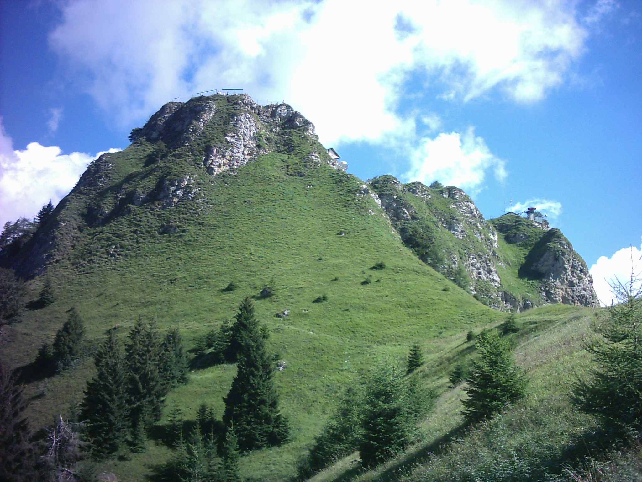 The summit of Monte Altissimo (1703 mt.), a mountain in Val Camonica, Lombardy